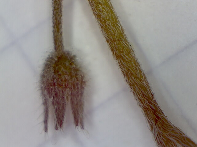 Myosotis arvensis: immature calyx with fruit inside.